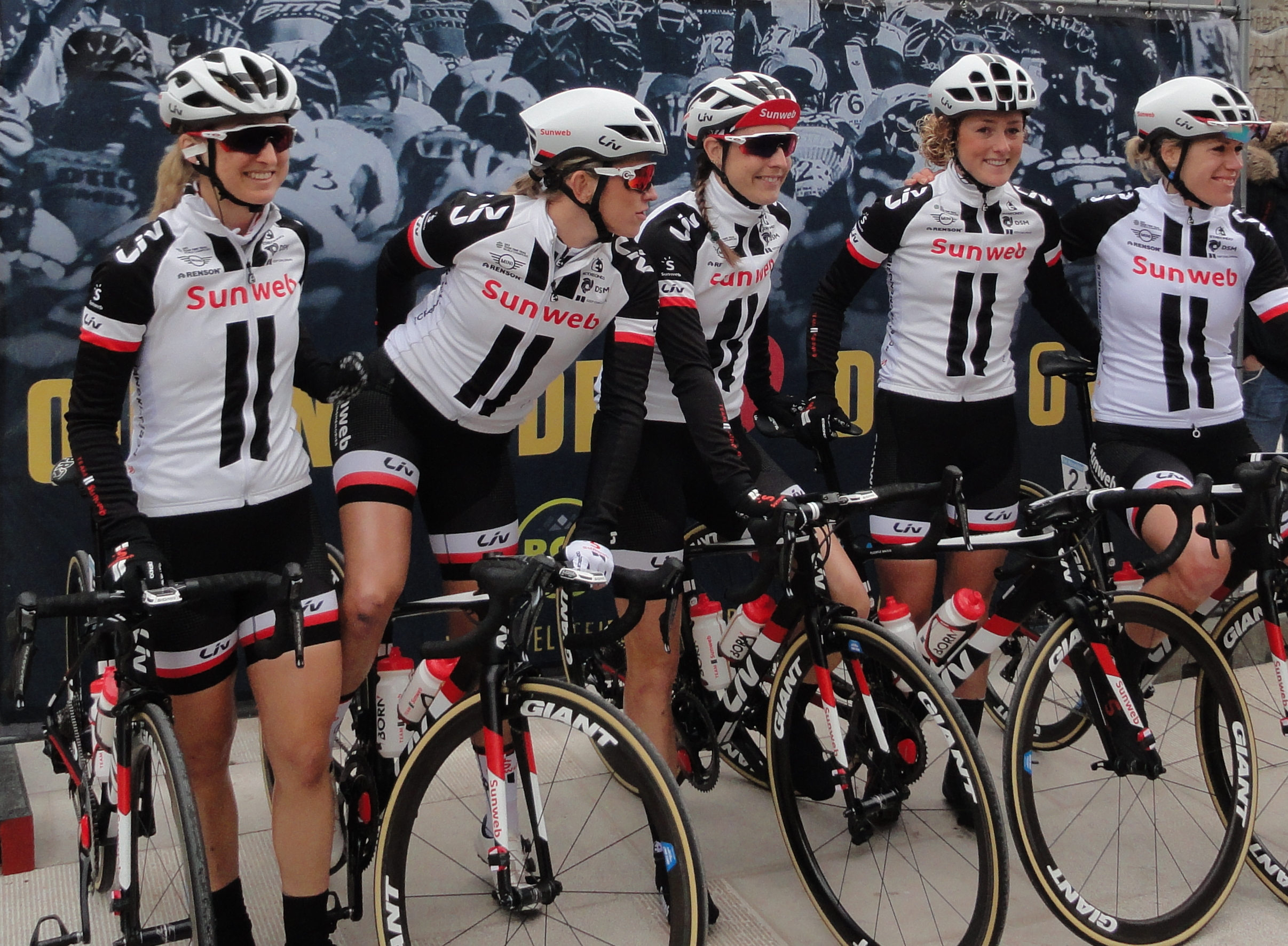 Sunweb women at start of RVV 2018.